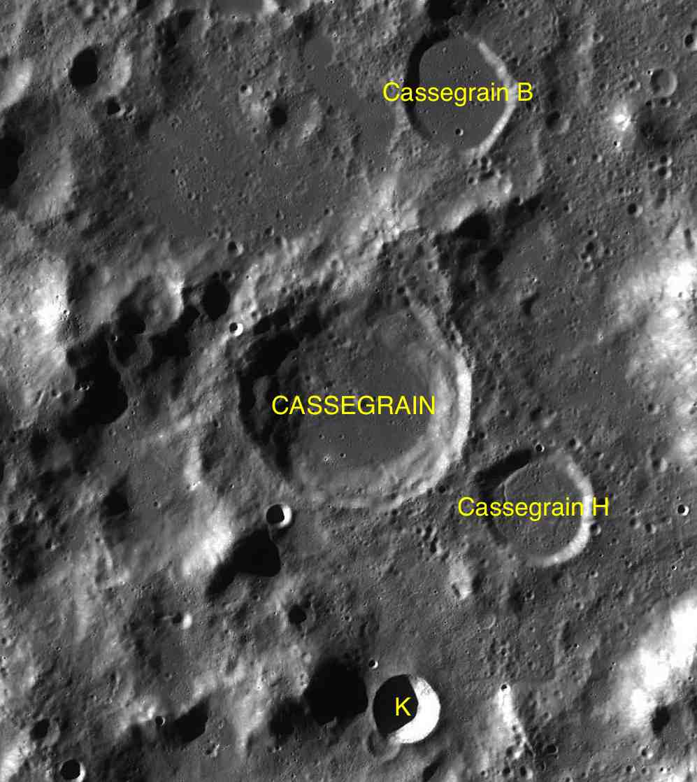 Part of the chart LAC-130 used for the presentation